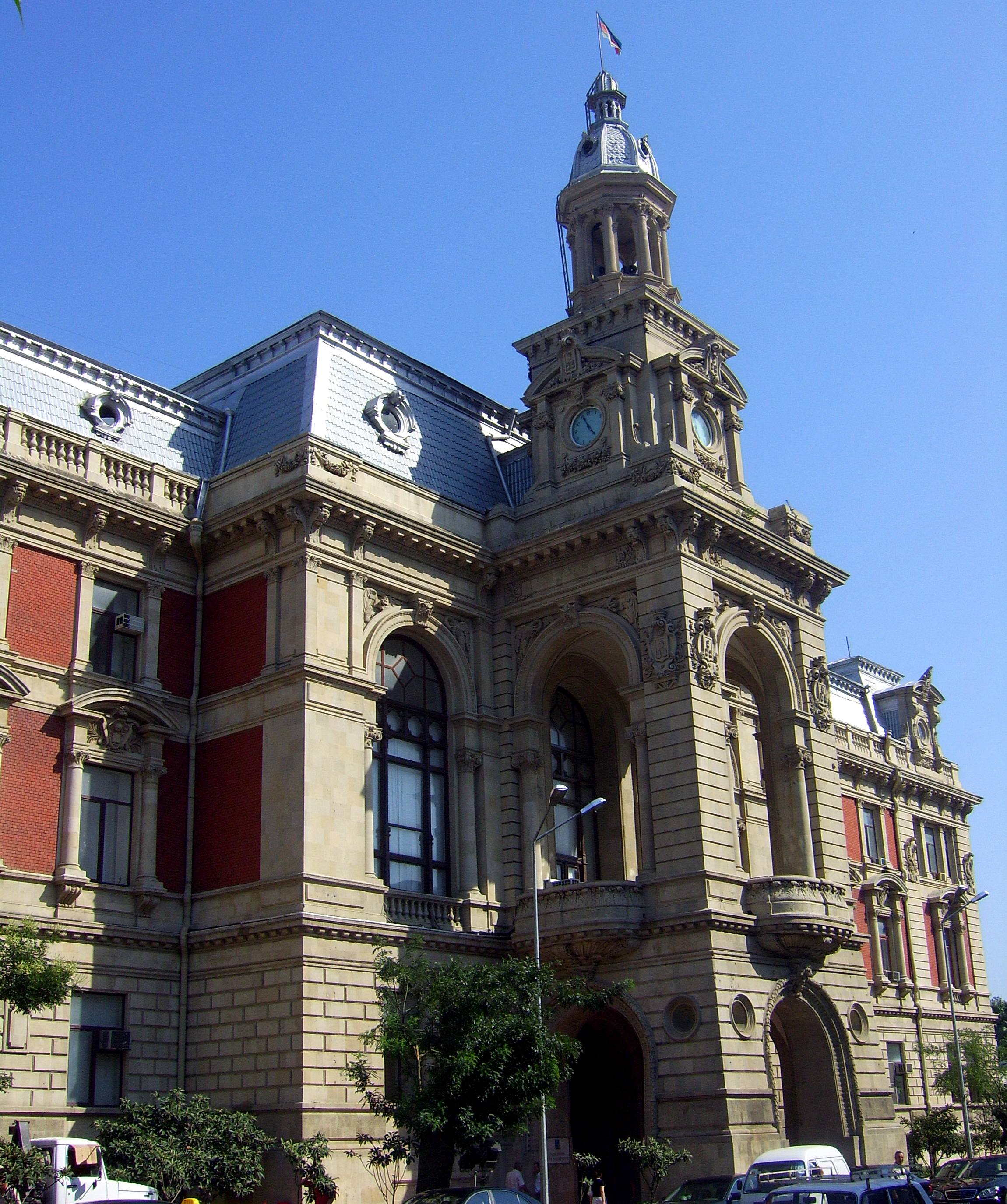 Building of the Baku City Hall